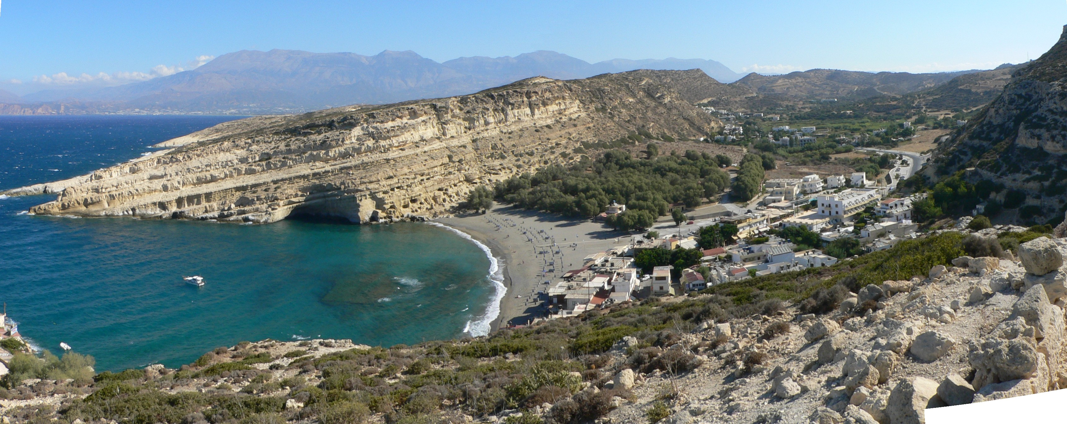 Panorama of the village Matala on the southern coast of the Greek island Crete. Visible in the background is Mount Ida. Image composed of three pictures.